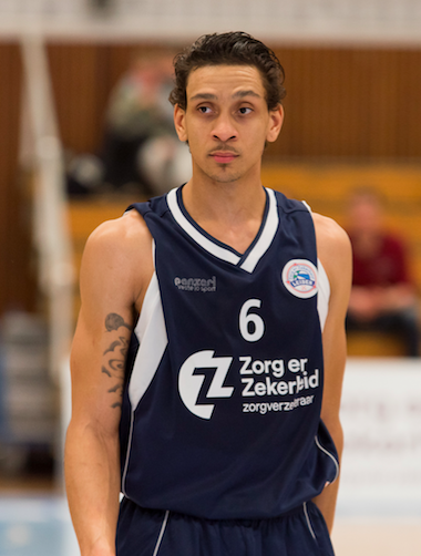 Professional basketball player Worthy de Jong in 2016, playing for ZZ Leiden.